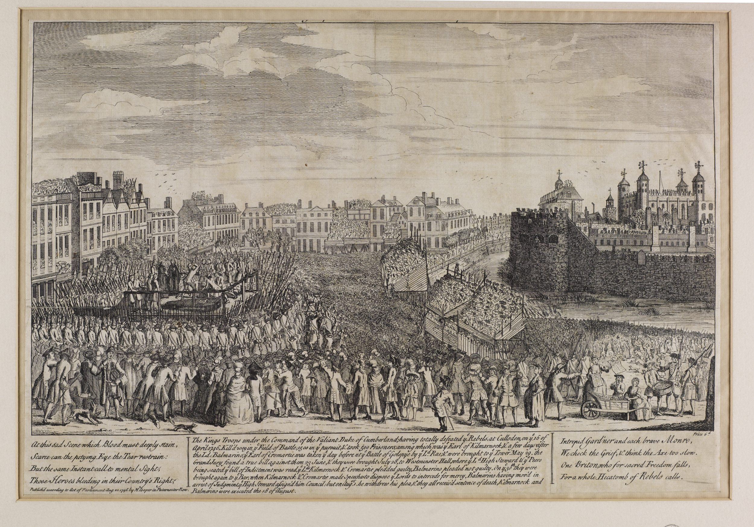 The execution of the Earl of Kilmarnock and Cromarty, and Lord Balmerino 10 1/4 x 15